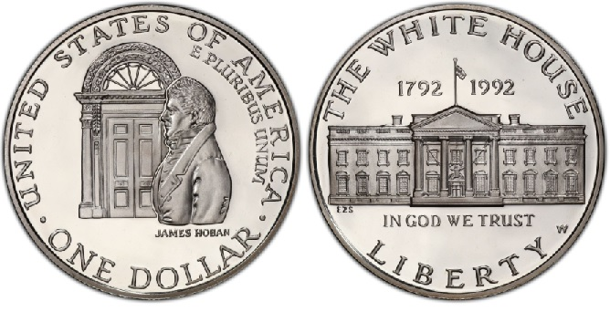 1992 White House Commemorative Proof Dollar